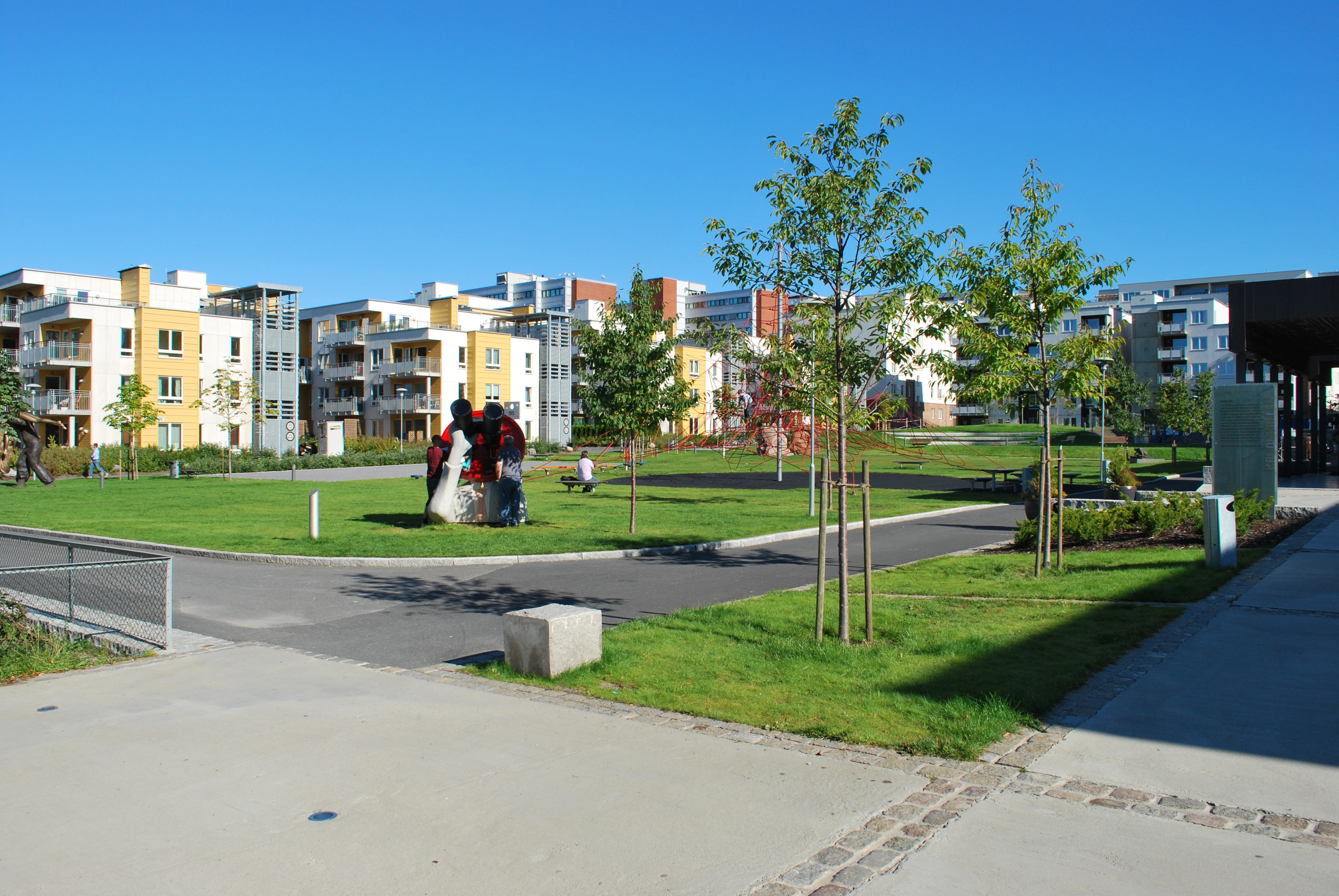 Løren Park (Norw. Lørenparken), Løren, Oslo